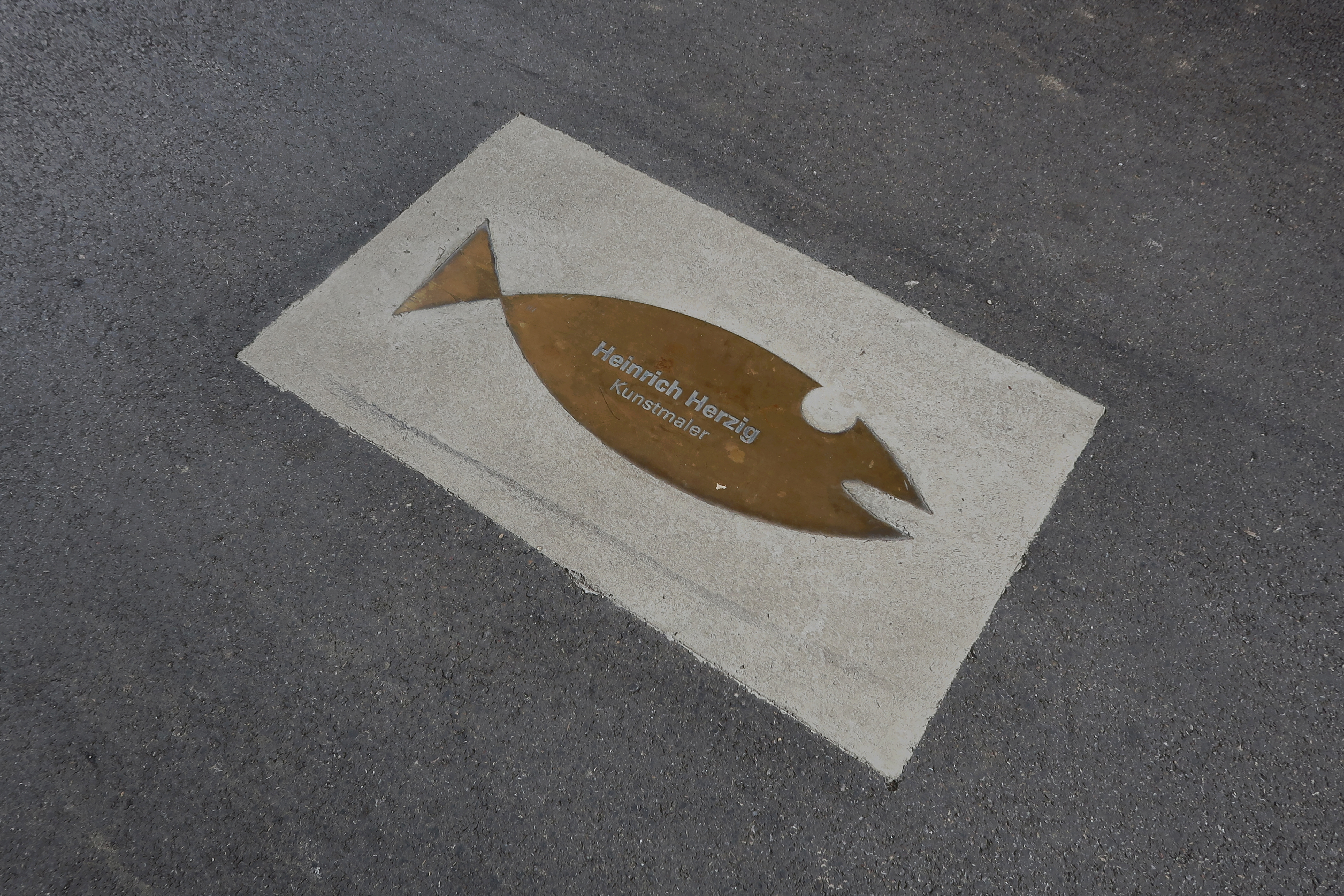 Rheineck - Rhytor & Fish Mile Heinrich Herzig, painter (1887-1964) from Rheineck. I don't know, but I assume that the plaques are made of brass. When they're wet, they're pretty slippery. Some kind of banana peel effect. Don't step on the fish. Switzerland, June 19, 2020